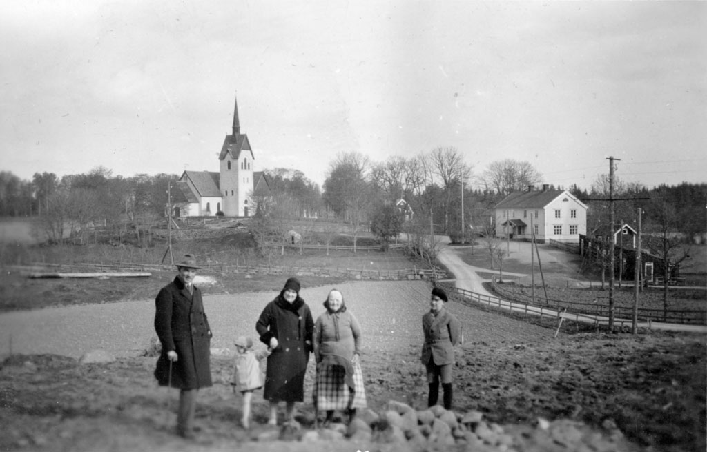 Family at a field in front of Järsnäs Church, dating from the 1100s or 1200s in its oldest parts